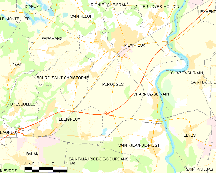 Map of French commune: Pérouges Map commune FR insee code 01290.png